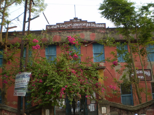 harivavi DVAS high school